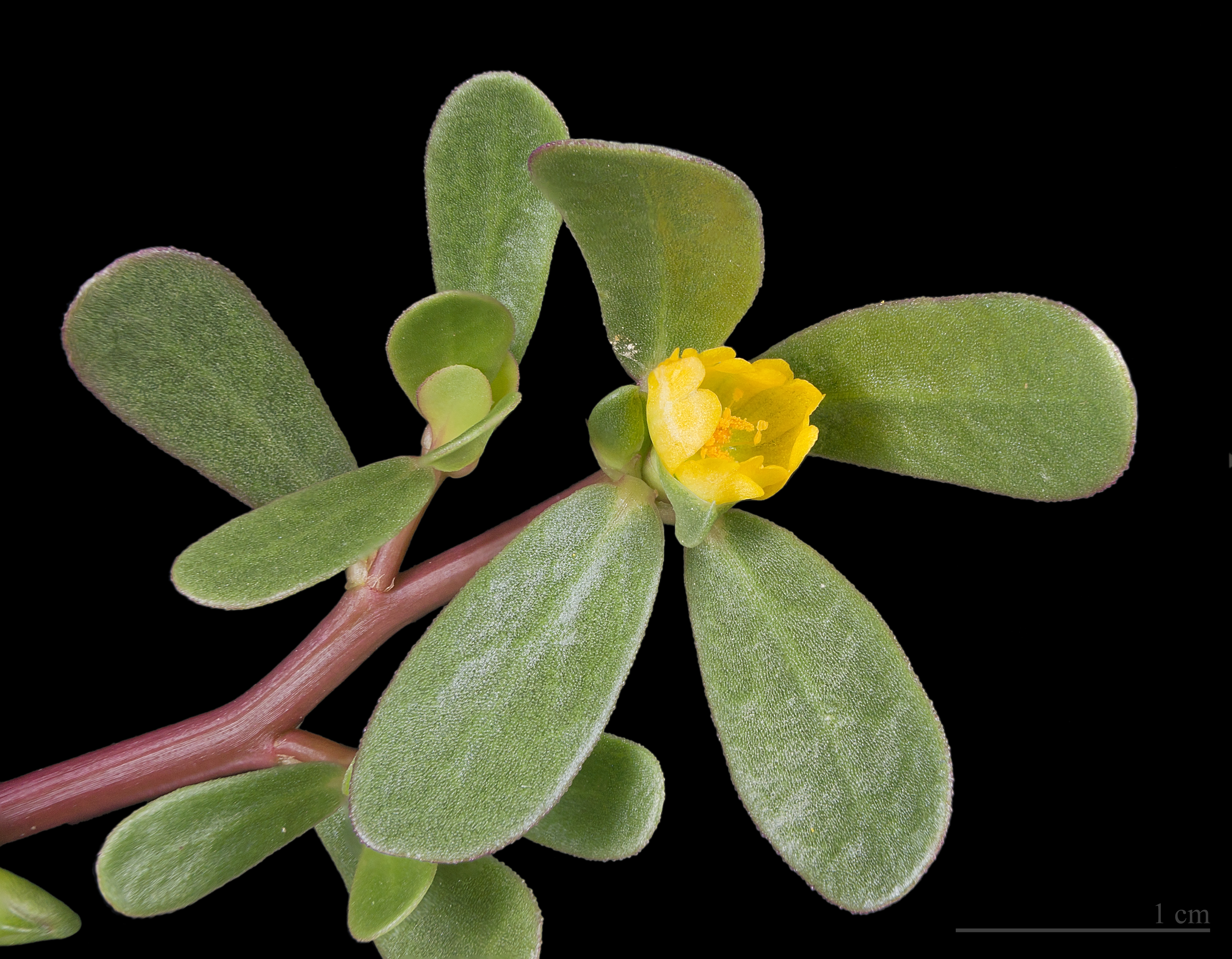 Common Purslane